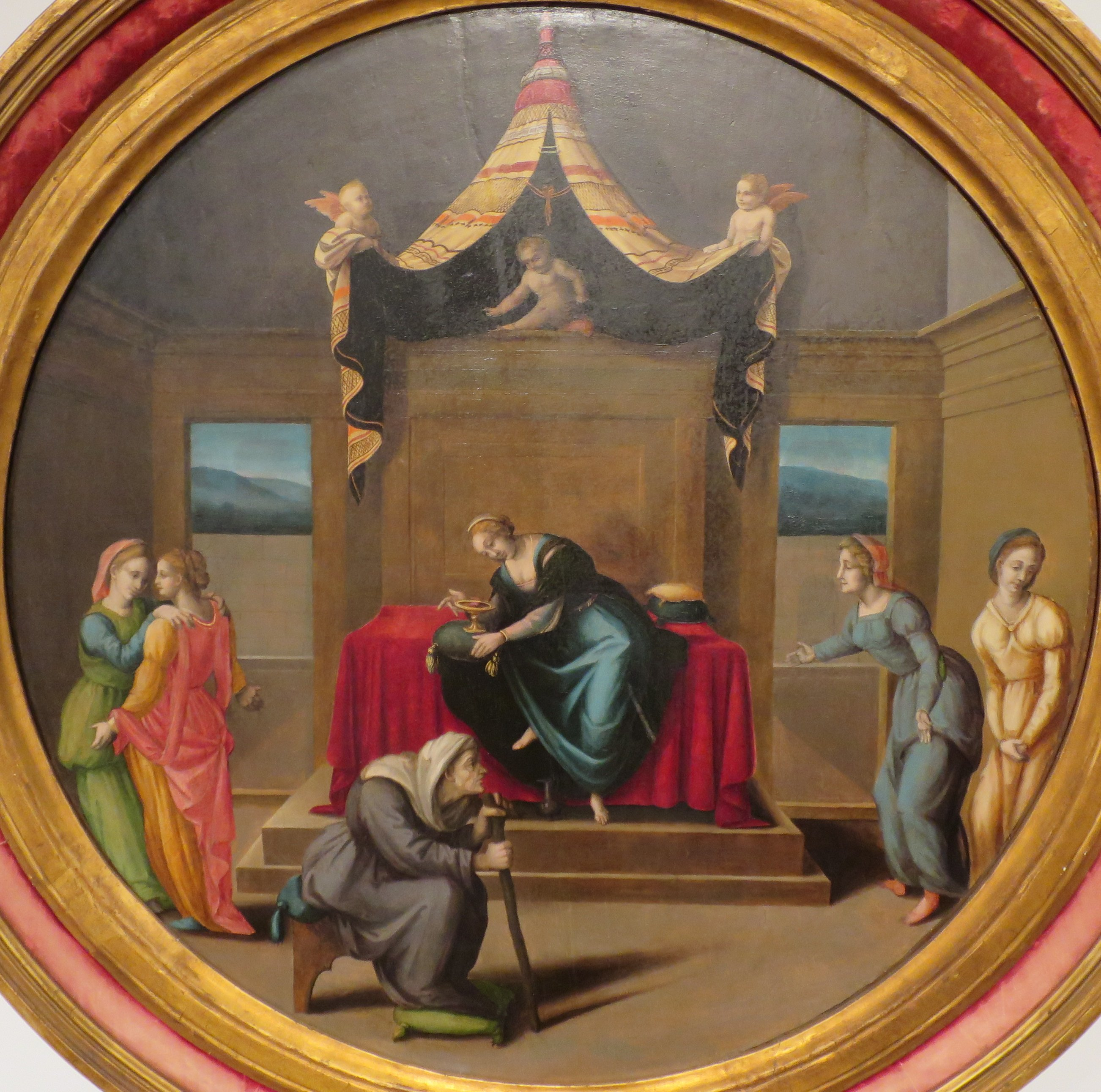 Ghismonda with Heart of Guiscardo, by Bacchiacca, 1520s, oil on wood, Lowe Art Museum